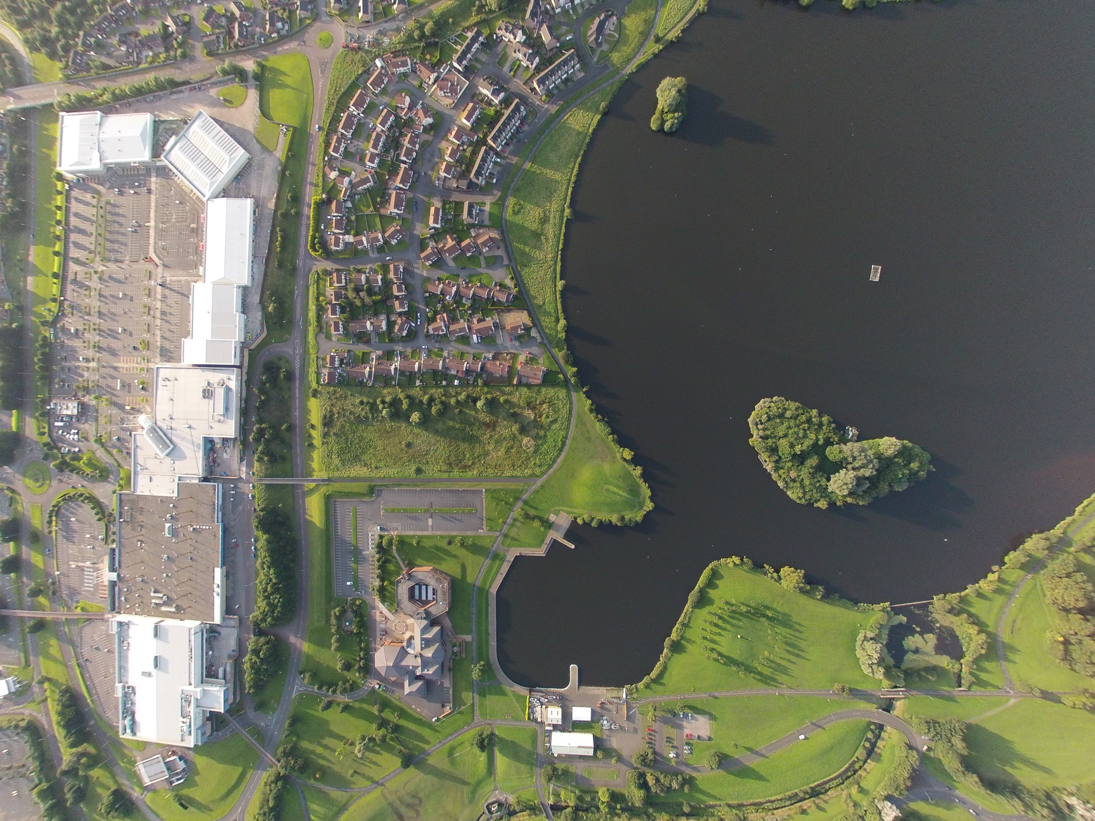 Aerial view of one of Craigavon lakes, Craigavon watersport center and Rushmere shopping centre, Craigavon civic centre and lakelands housing development from approx 1000ft